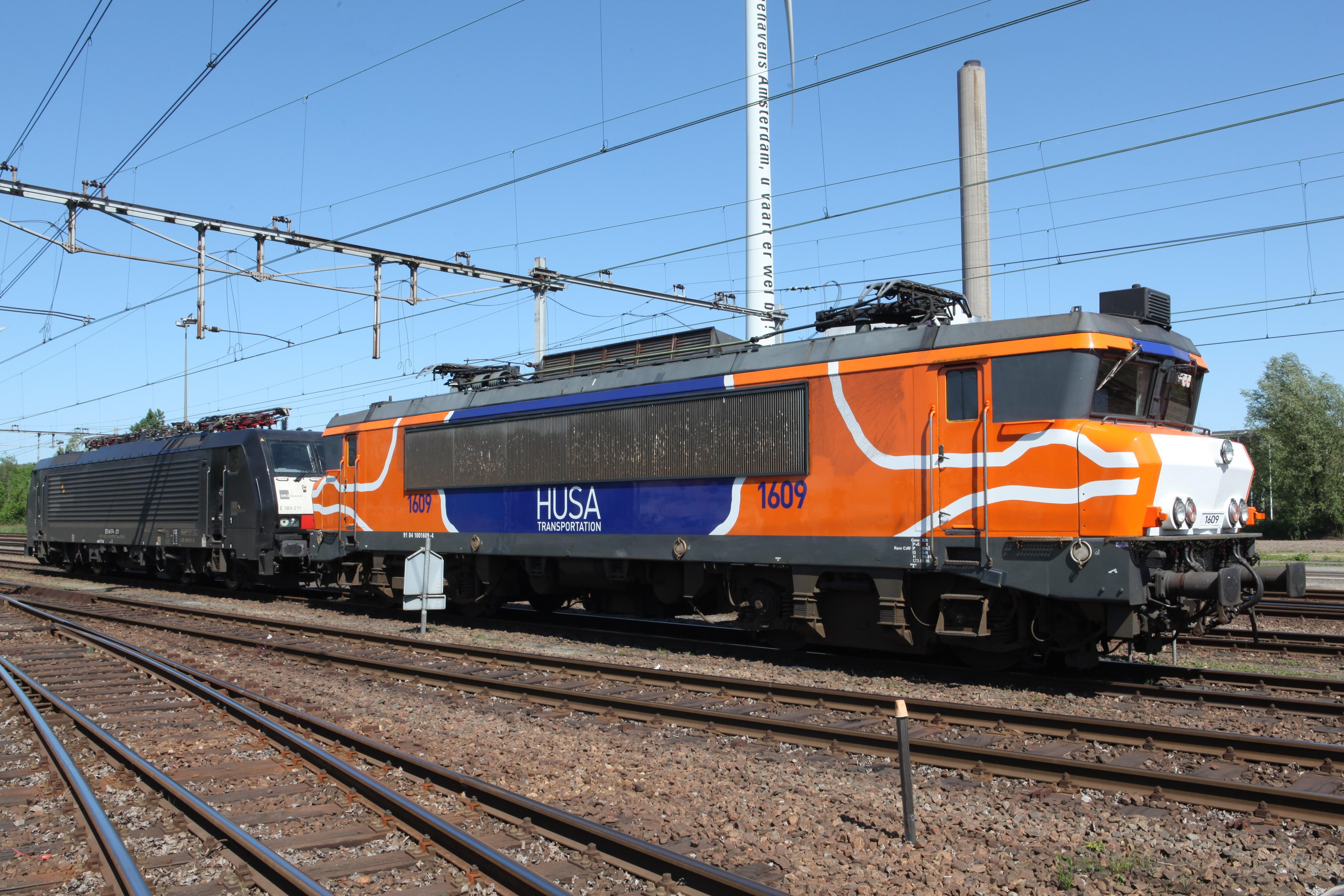 HTRS HUSA Transportation Railway Services Nederland B.V.